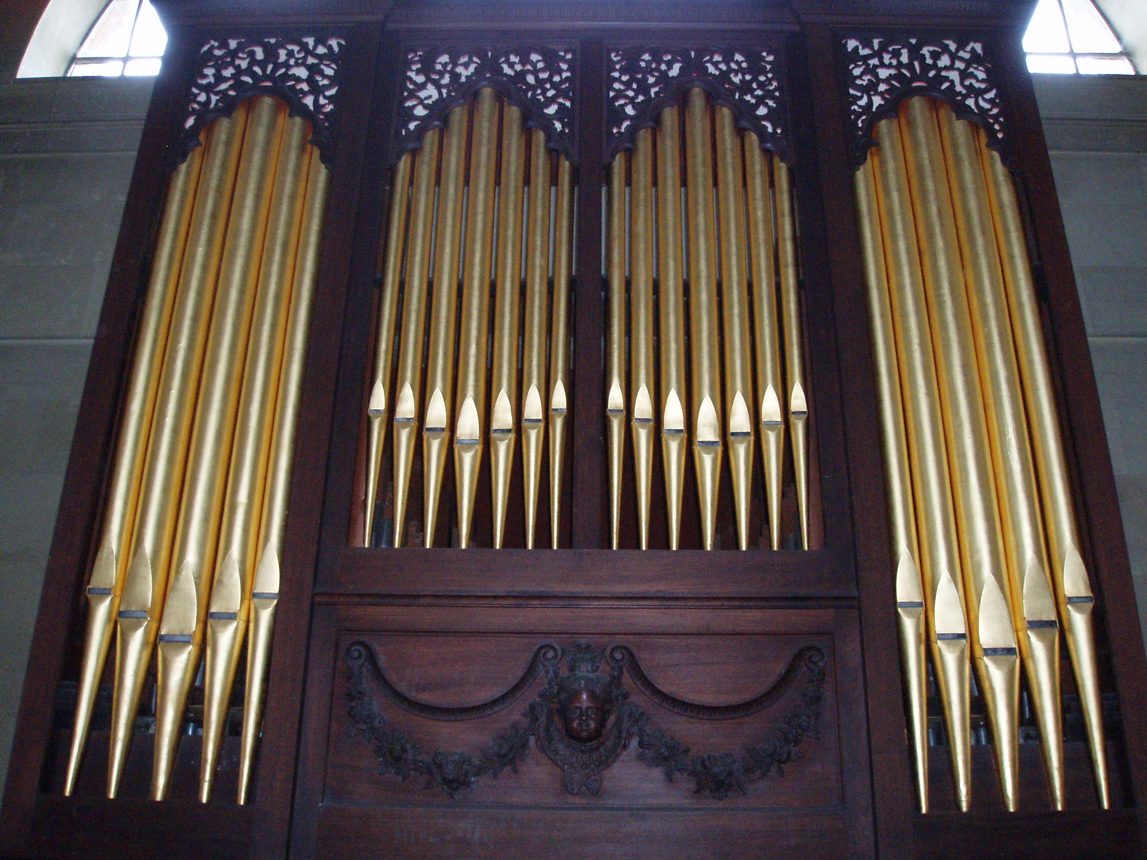 The Organ in St James, Great Packington, originally built in 1749 to George Frideric Handel's specifications by the organbuilder Richard Bridge for the country estate of Charles Jennens at Gopsall